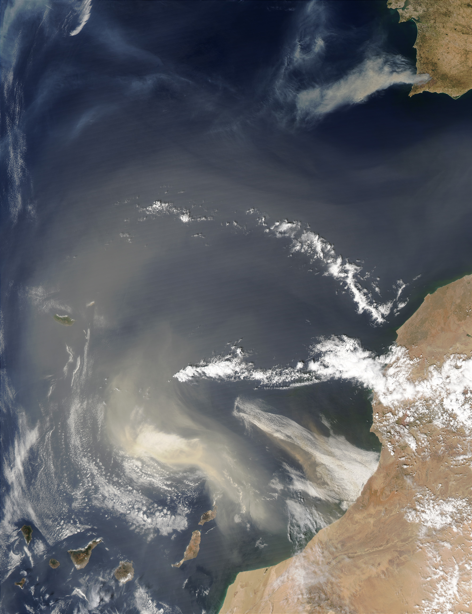 יציאת אבק מדברי מחופי מערב אפריקה אל עבר האוקיינוס האטלנטי